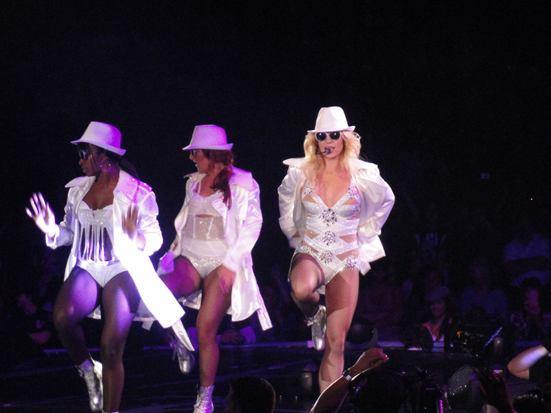 Spears